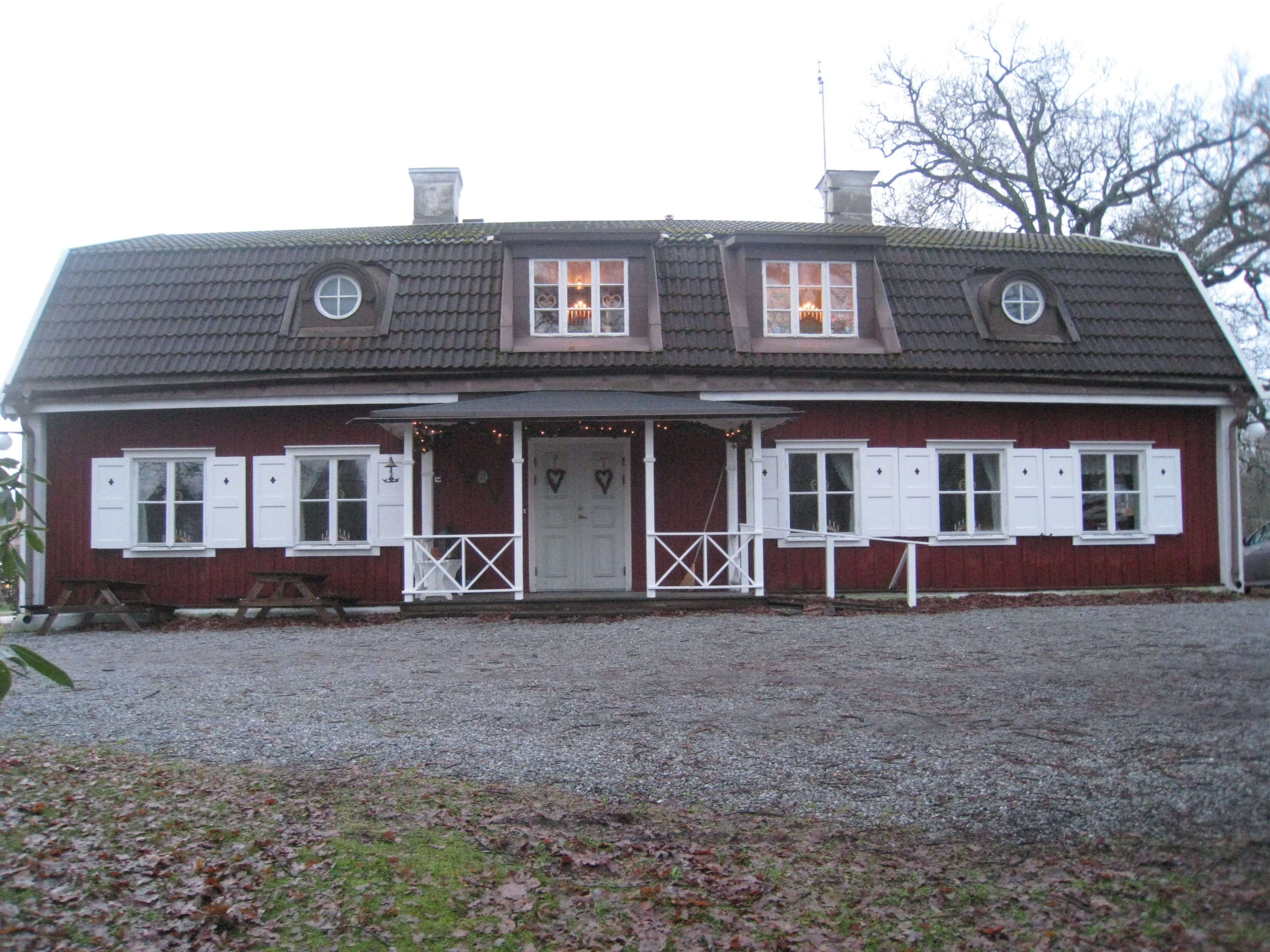 Ulvsättra gård, Kallhäll, Järfälla kommun, huvudbyggnaden.